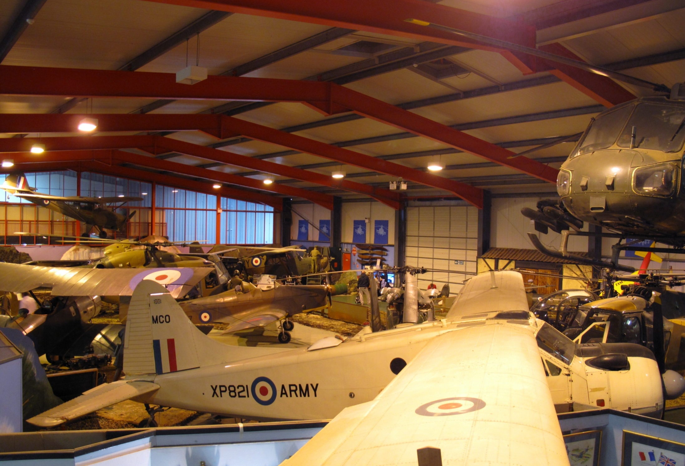 Photo of one of the galleries at the museum of army flying